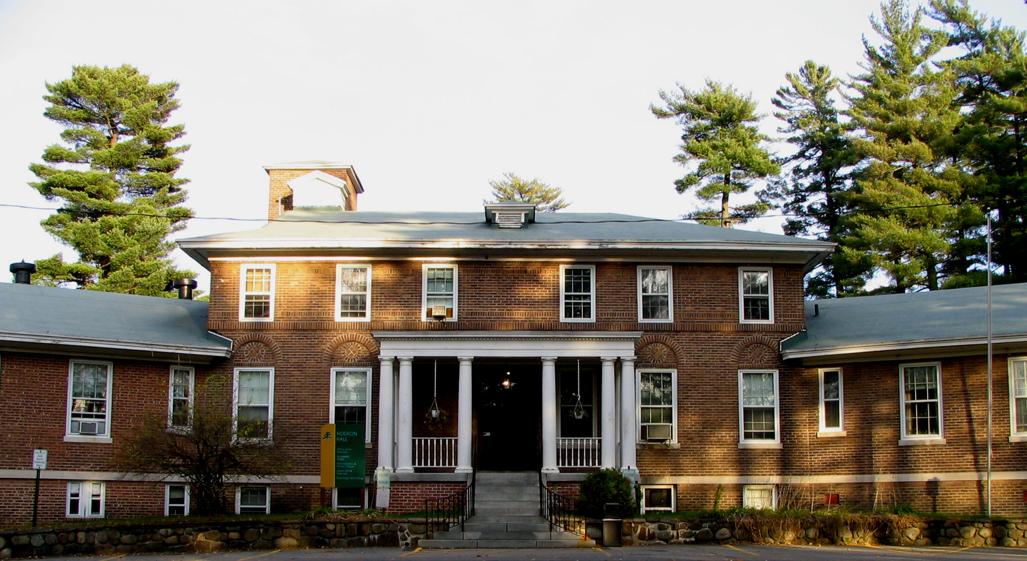 Hodson Hall at North Country Community College. Taken by User:Mwanner, 4 January, 2007.